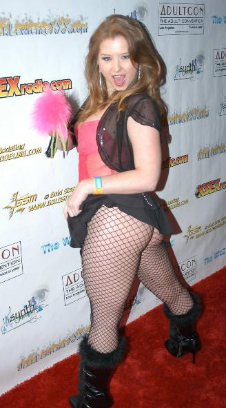 March 8, 2007: Jack Lawrence's 40th Birthday Party